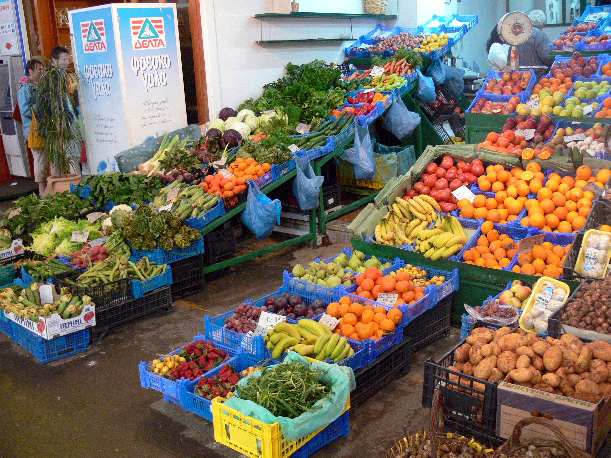 Market hall of Chania ( Crete ). Fruits and vegetables on sale.